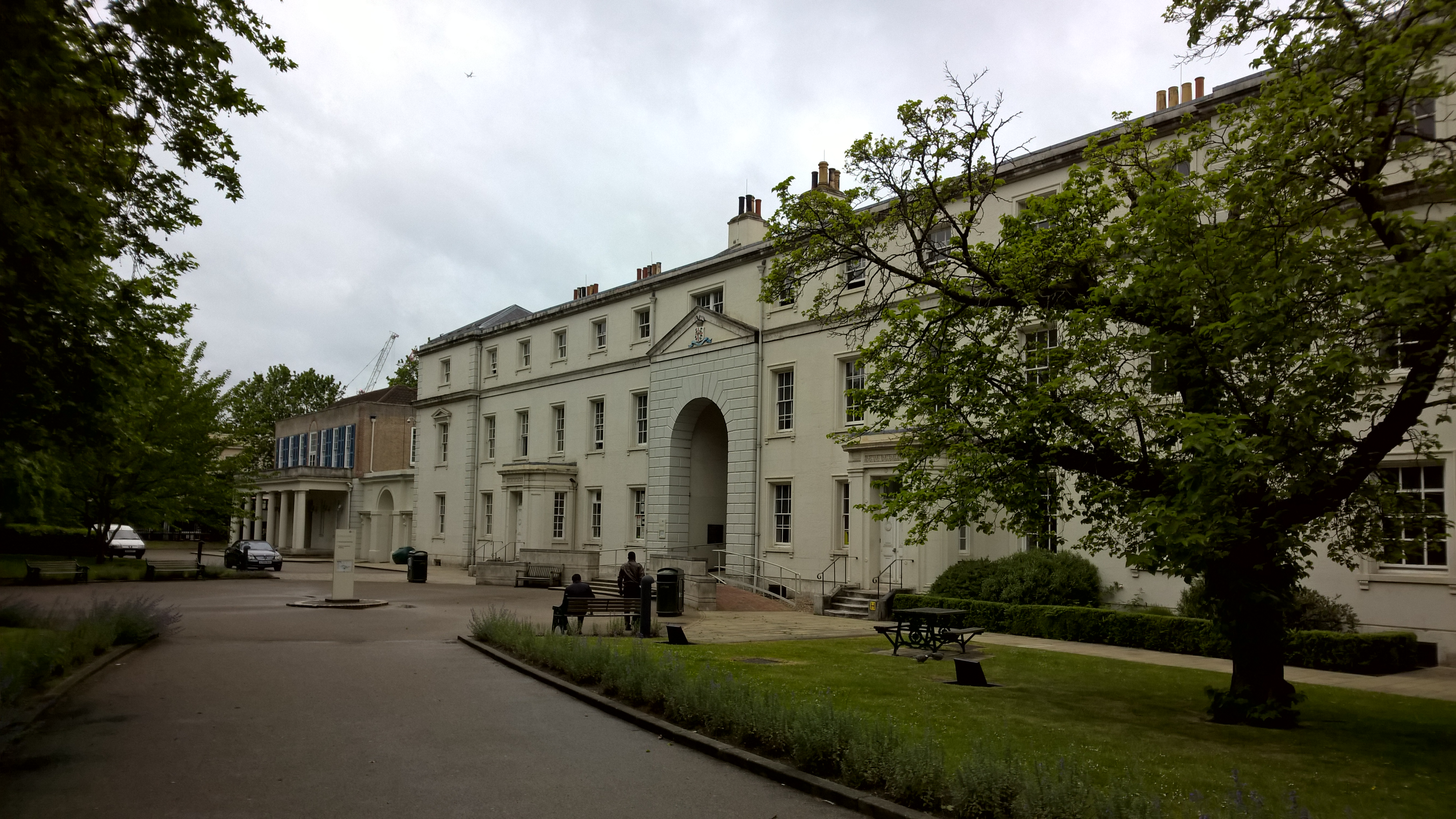 House built 1772 for the Master Founder Jan Verbruggen